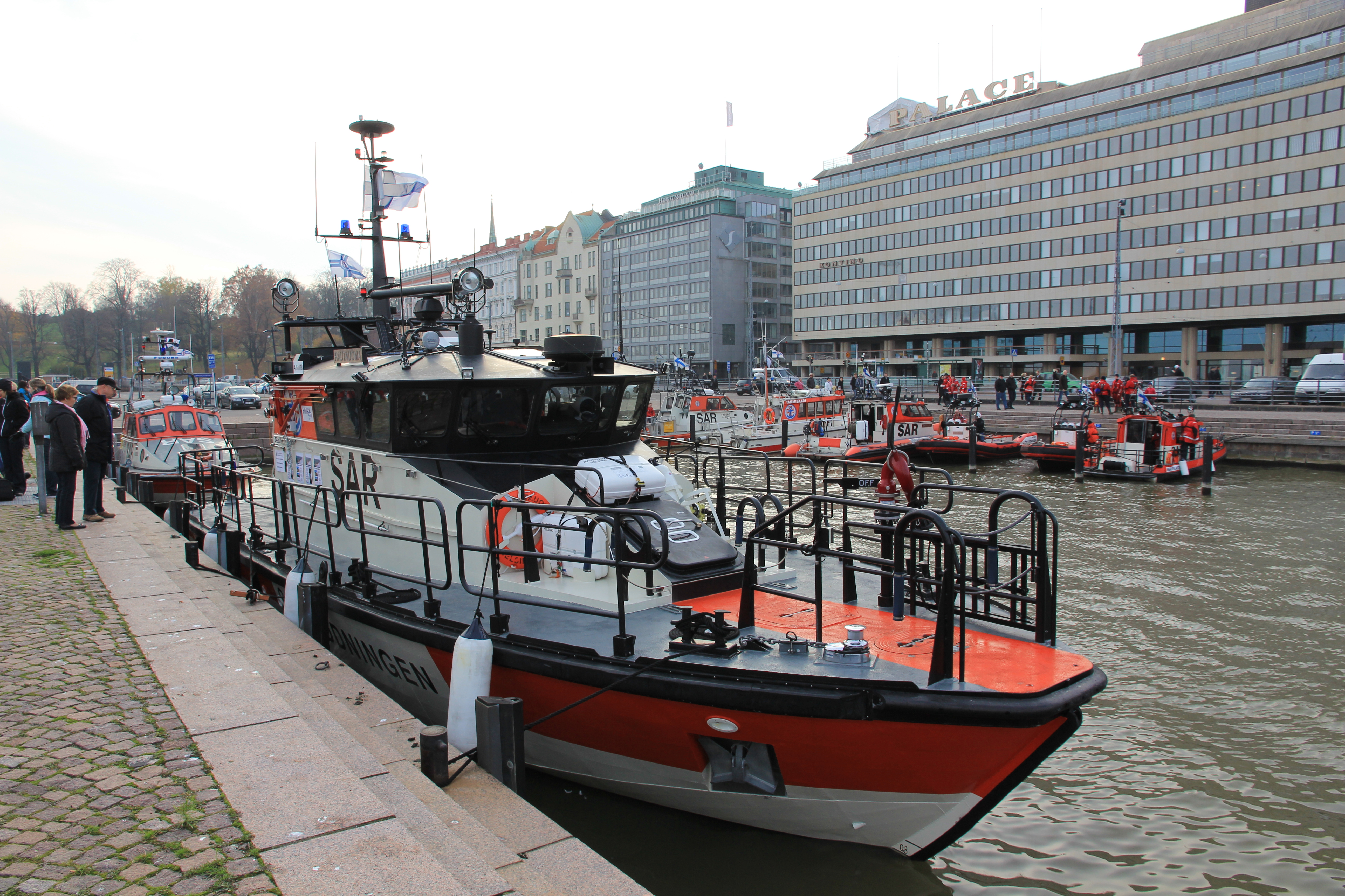 Finnish search and rescue vessel Rautauoma in Helsinki South harbour.